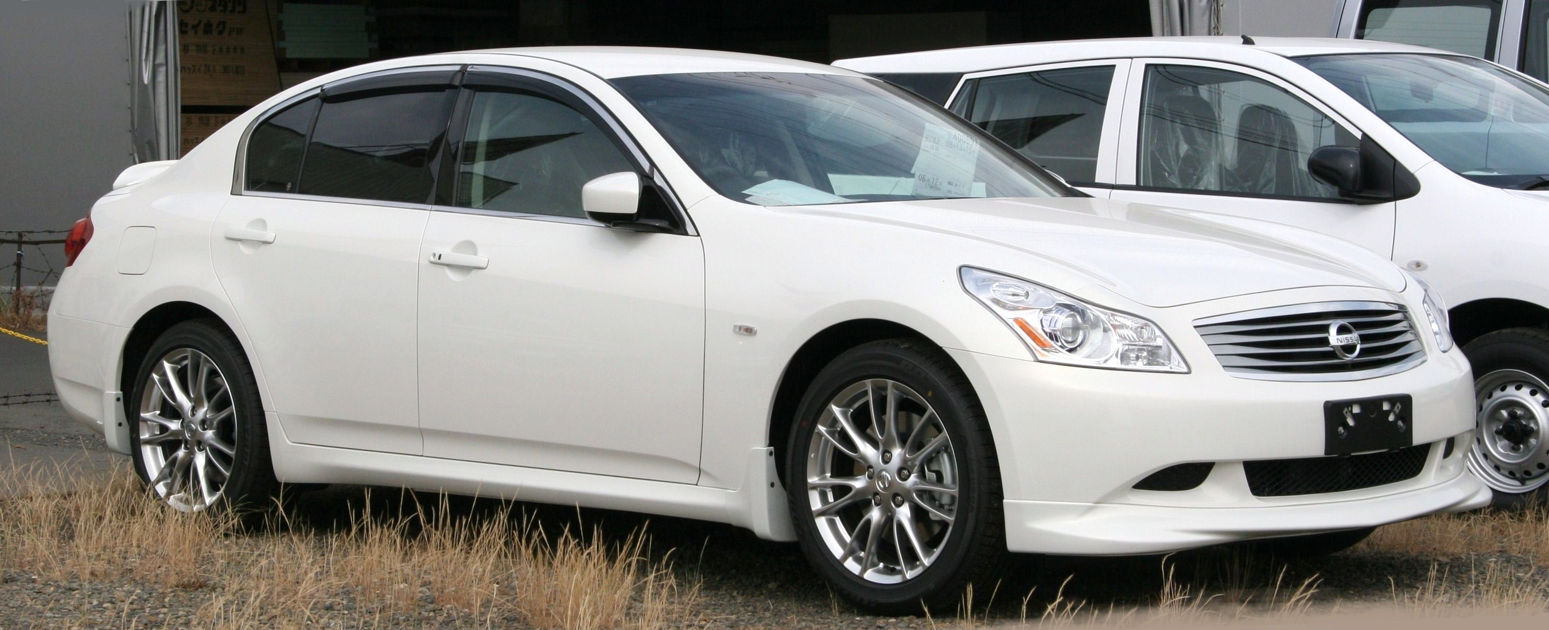 NISSAN SKYLINE